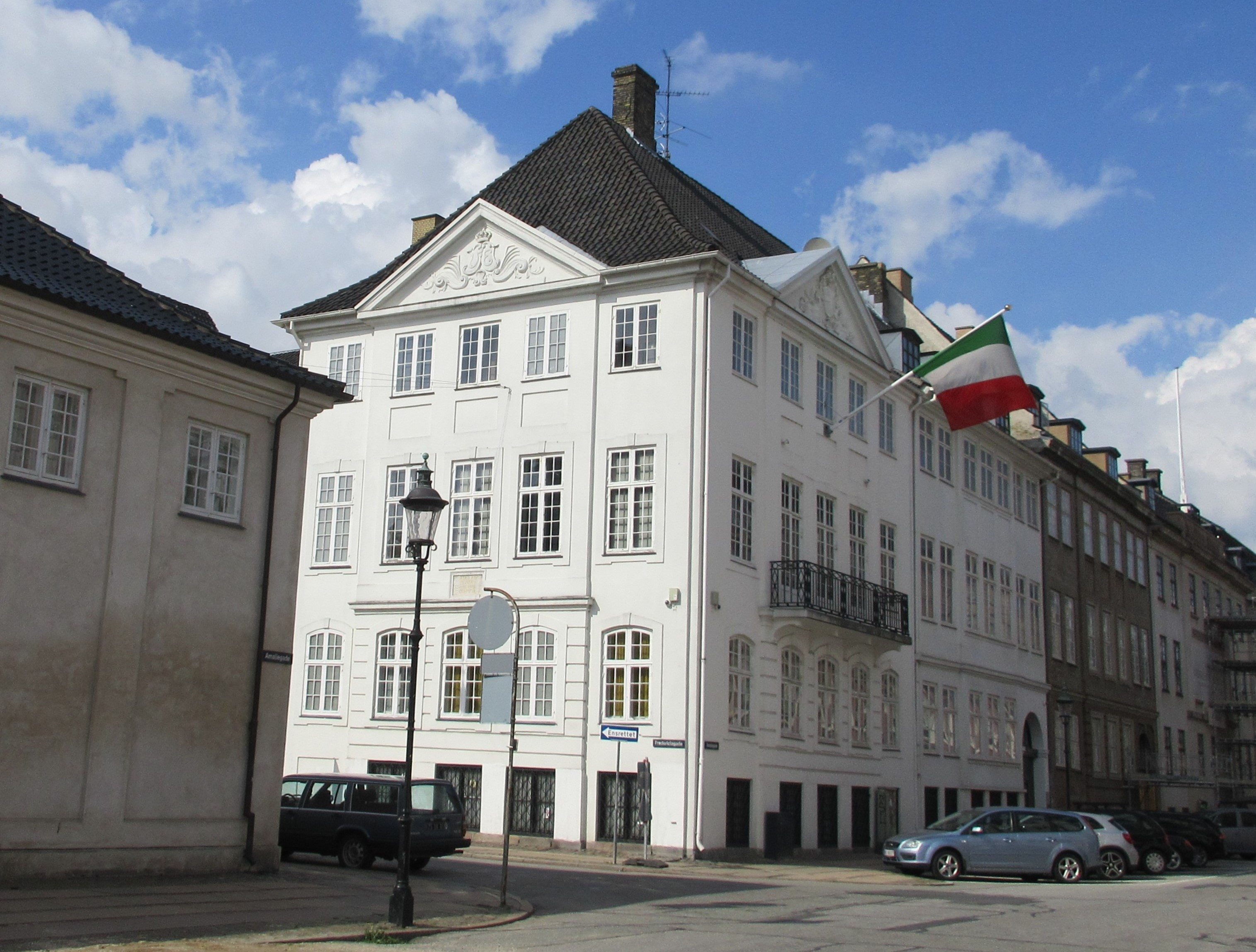 Italien ambassador's residence in Copenhagen